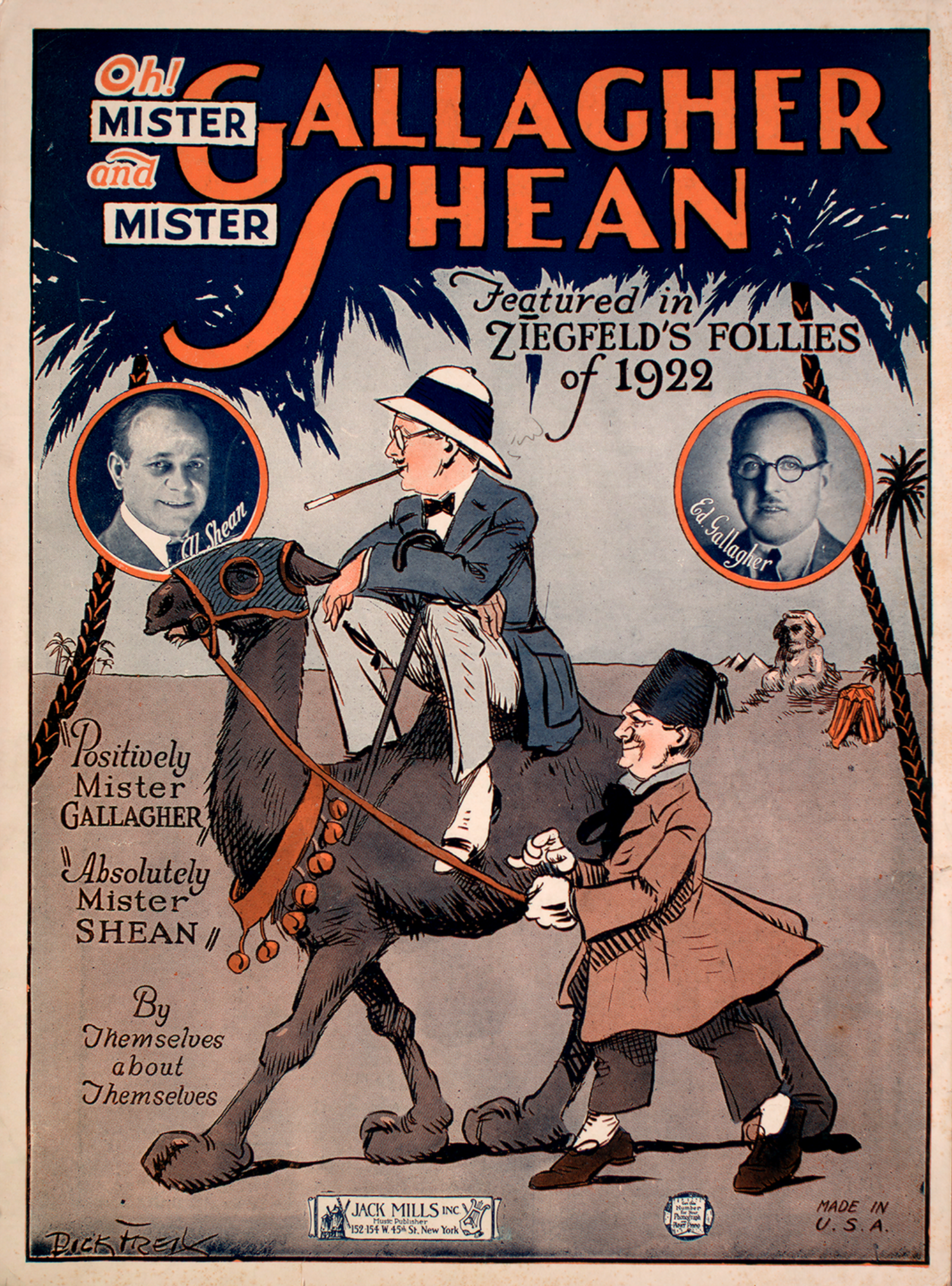 Alternative sheet music cover